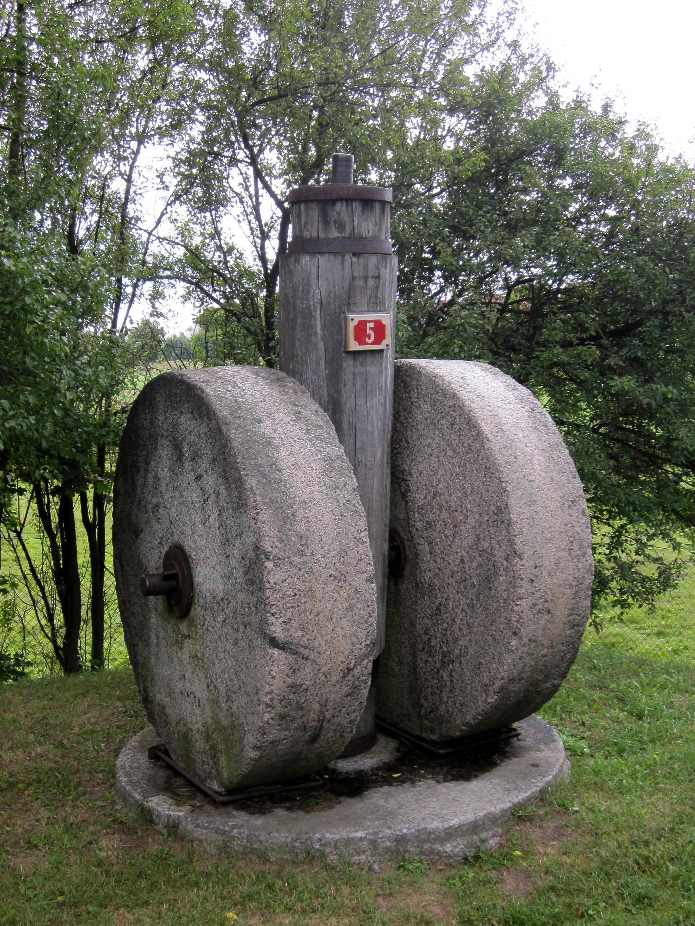 Ethnographic Park in Olsztynek - 5. An early 20th-century oil-seed roller-mill from Nowy Młyn near Gietzwałd, Olsztyn district, orginal